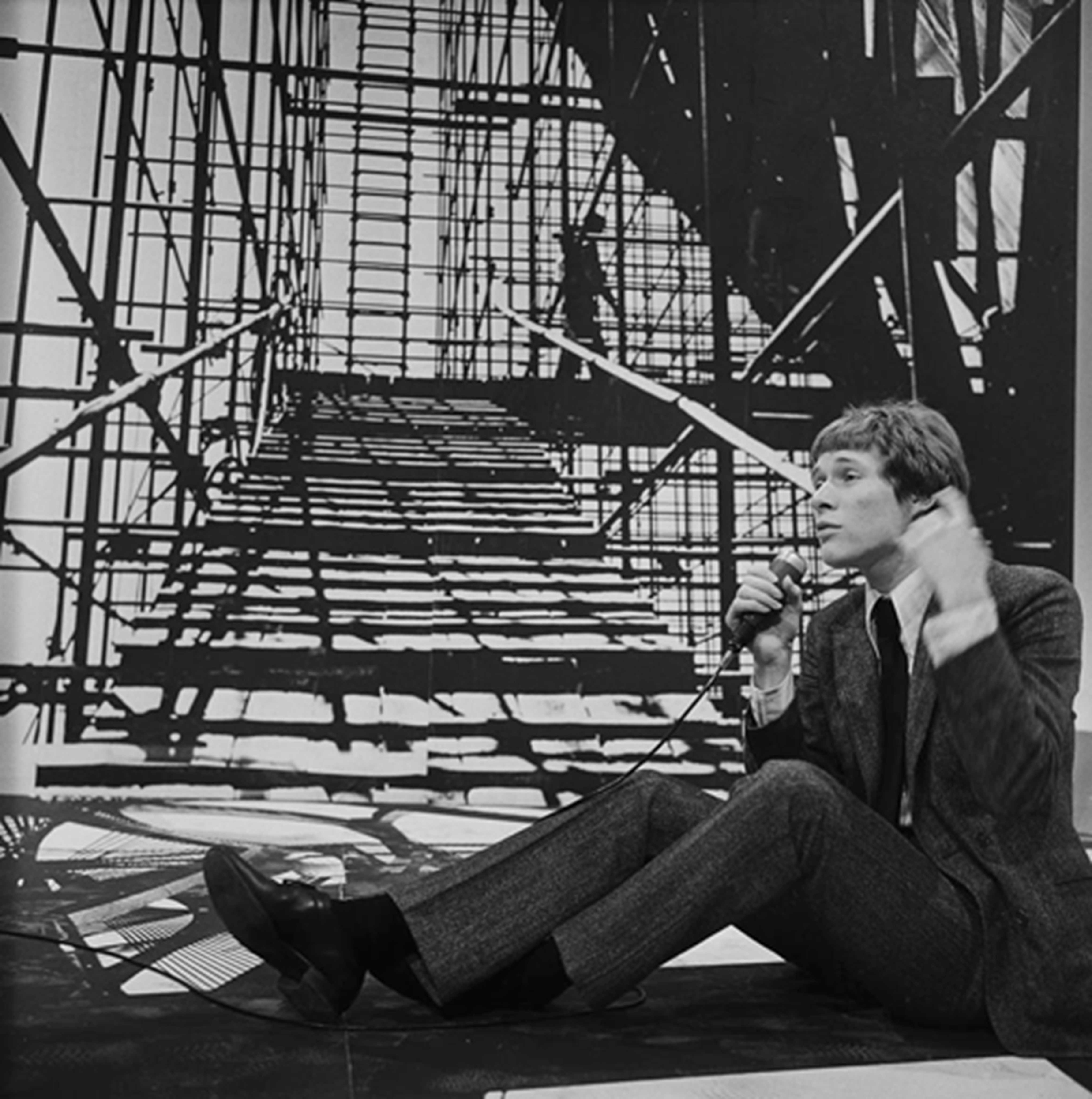 Paul Jones performing the songs "High Time" and "I've been a bad bad boy" on Dutch TV programme Fanclub, 4 February 1967